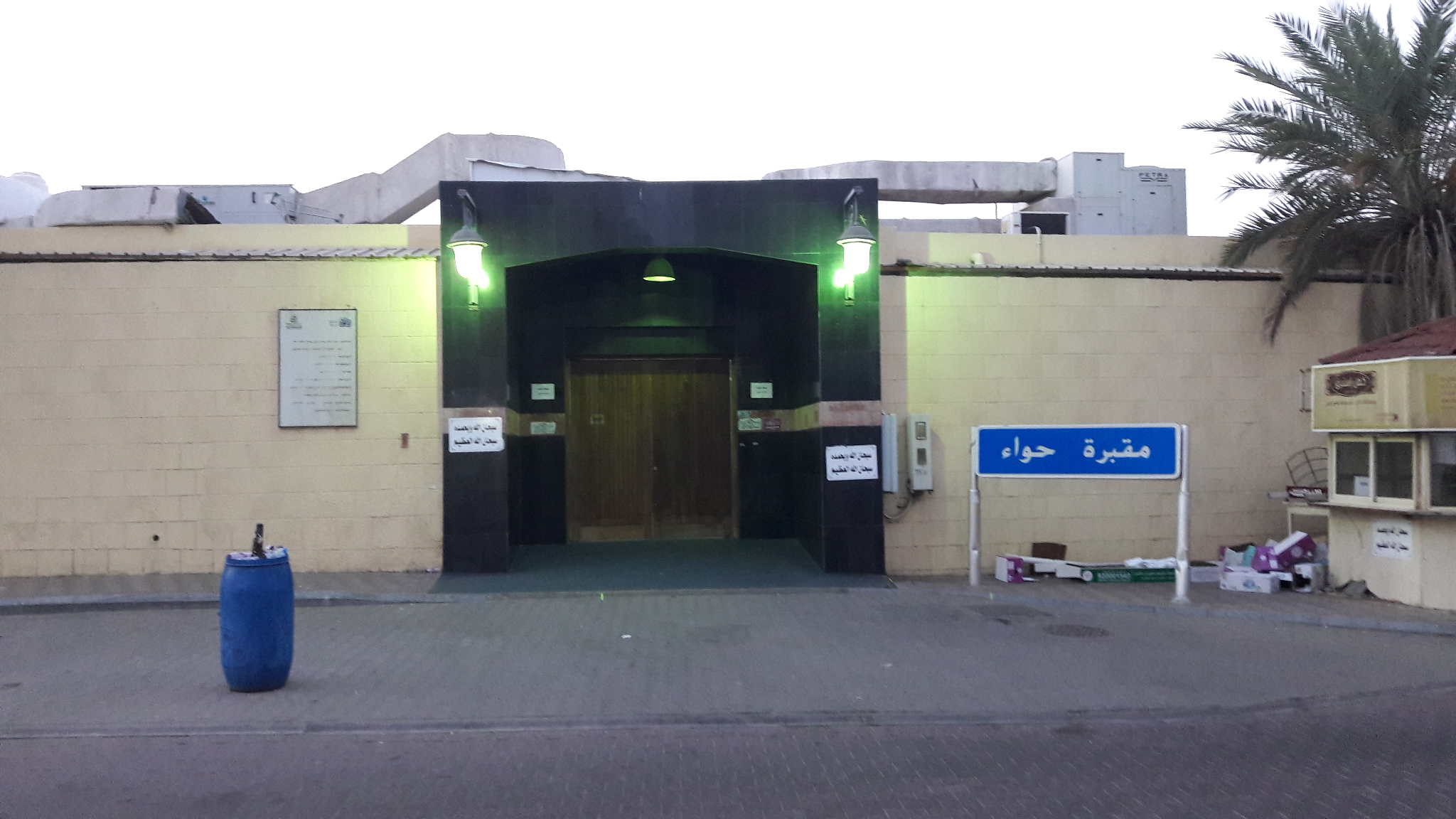 Tomb of Eve, Jeddah